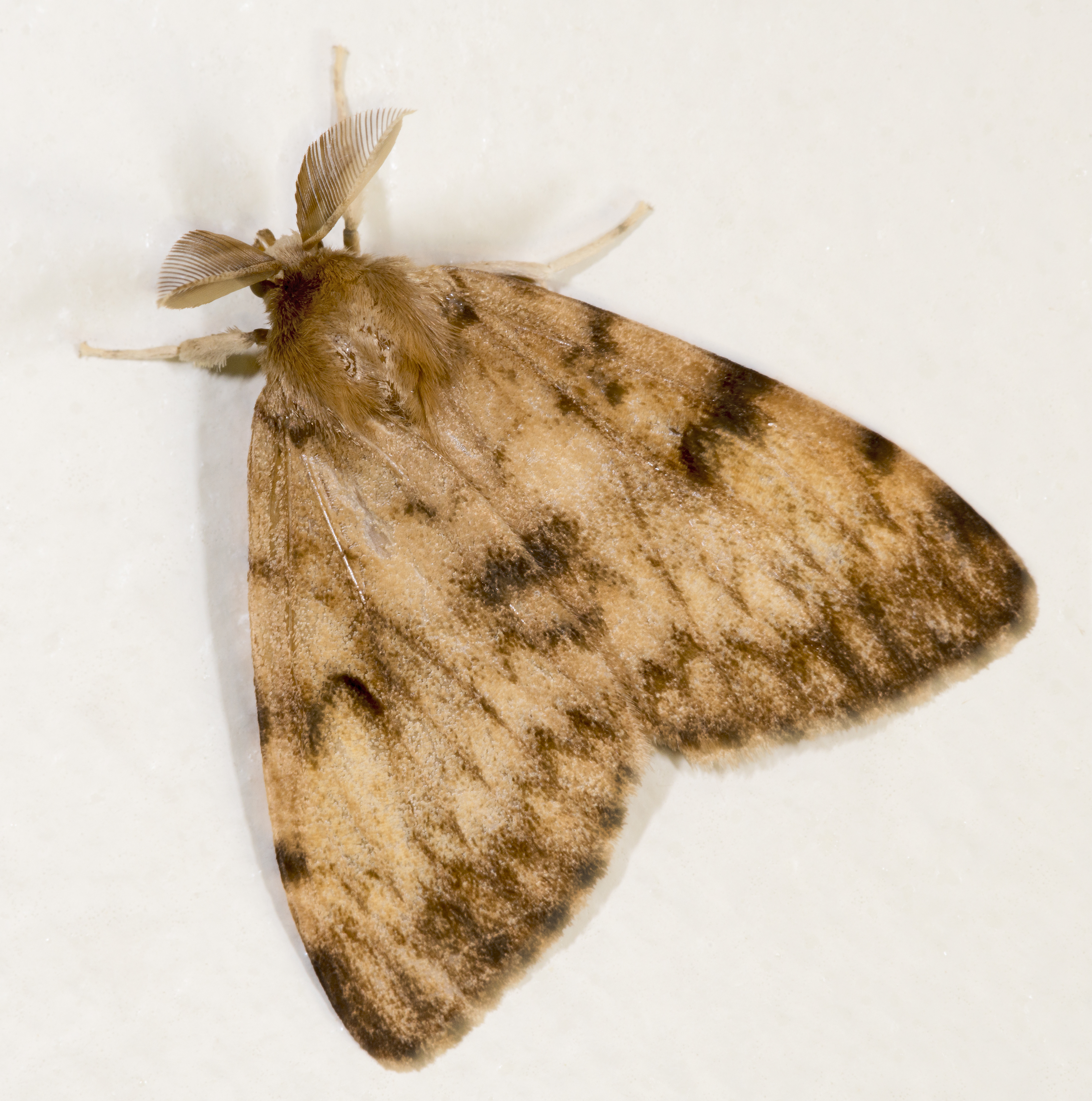 Gypsy Moth. Dorsal side